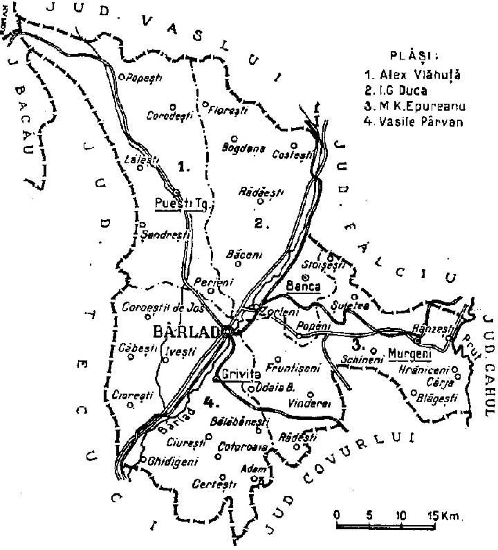 Map of Tutova interwar county, Kingdom of Romania (1938).